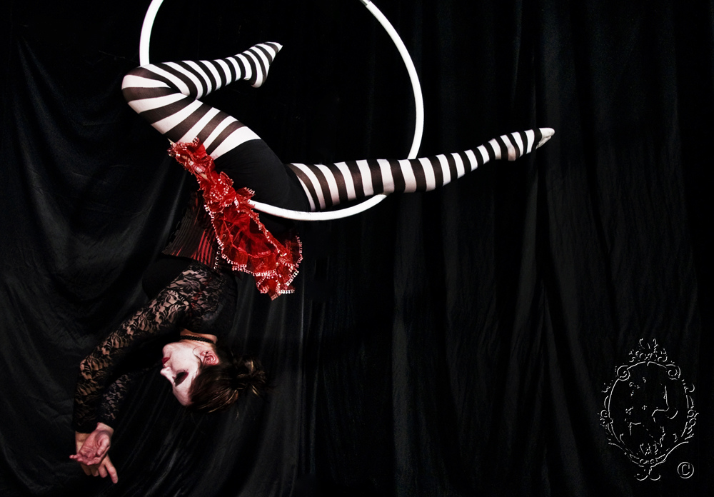 Model: Kristi Taff Copyright 2010